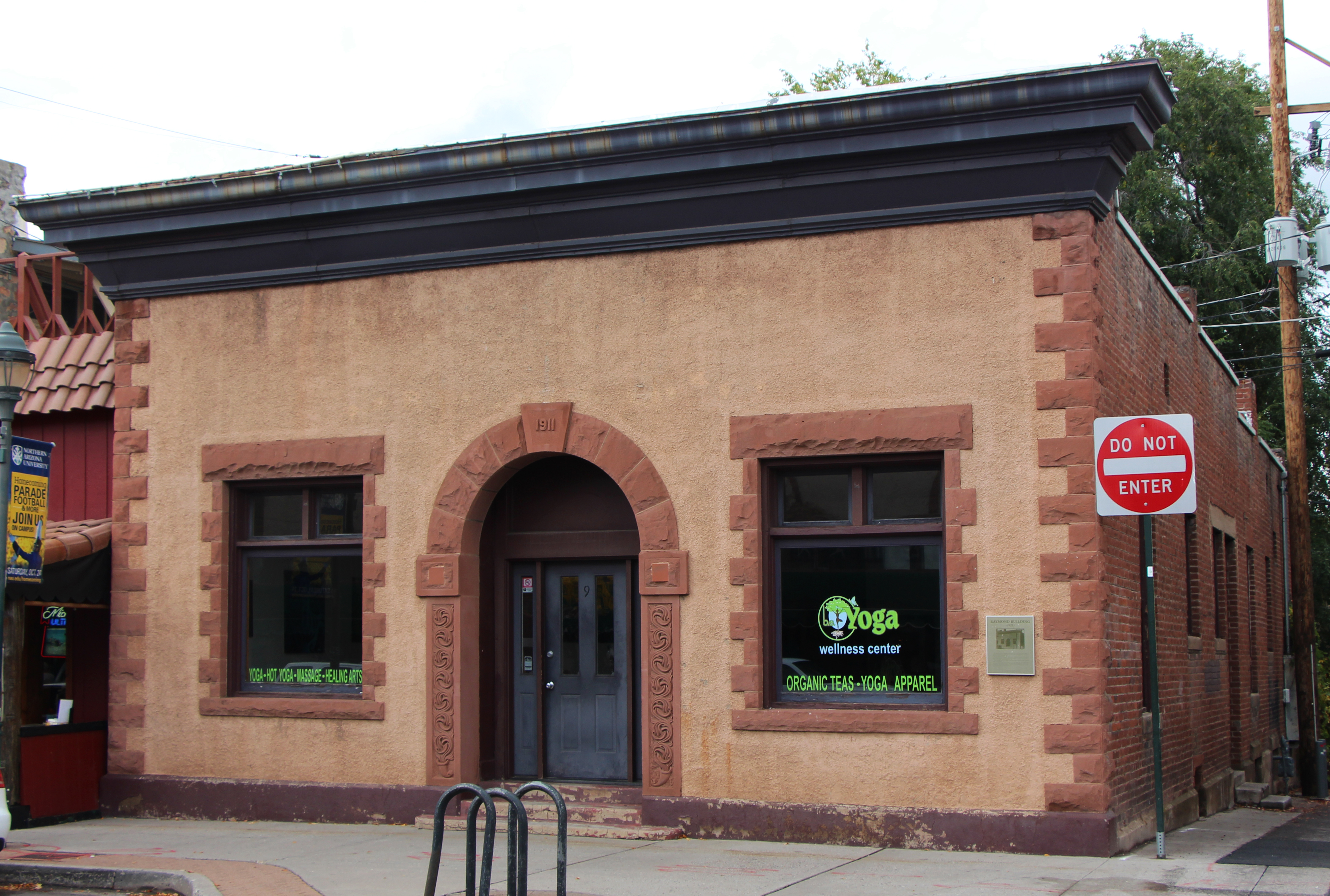 Ramond Building, 9 N Leroux St, Flagstaff, AZ